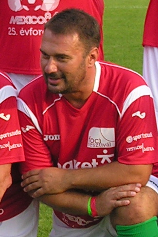 Kálmán Kovács Hungarian international football player in Telki (Hungary) - Football Festival by MLSZ